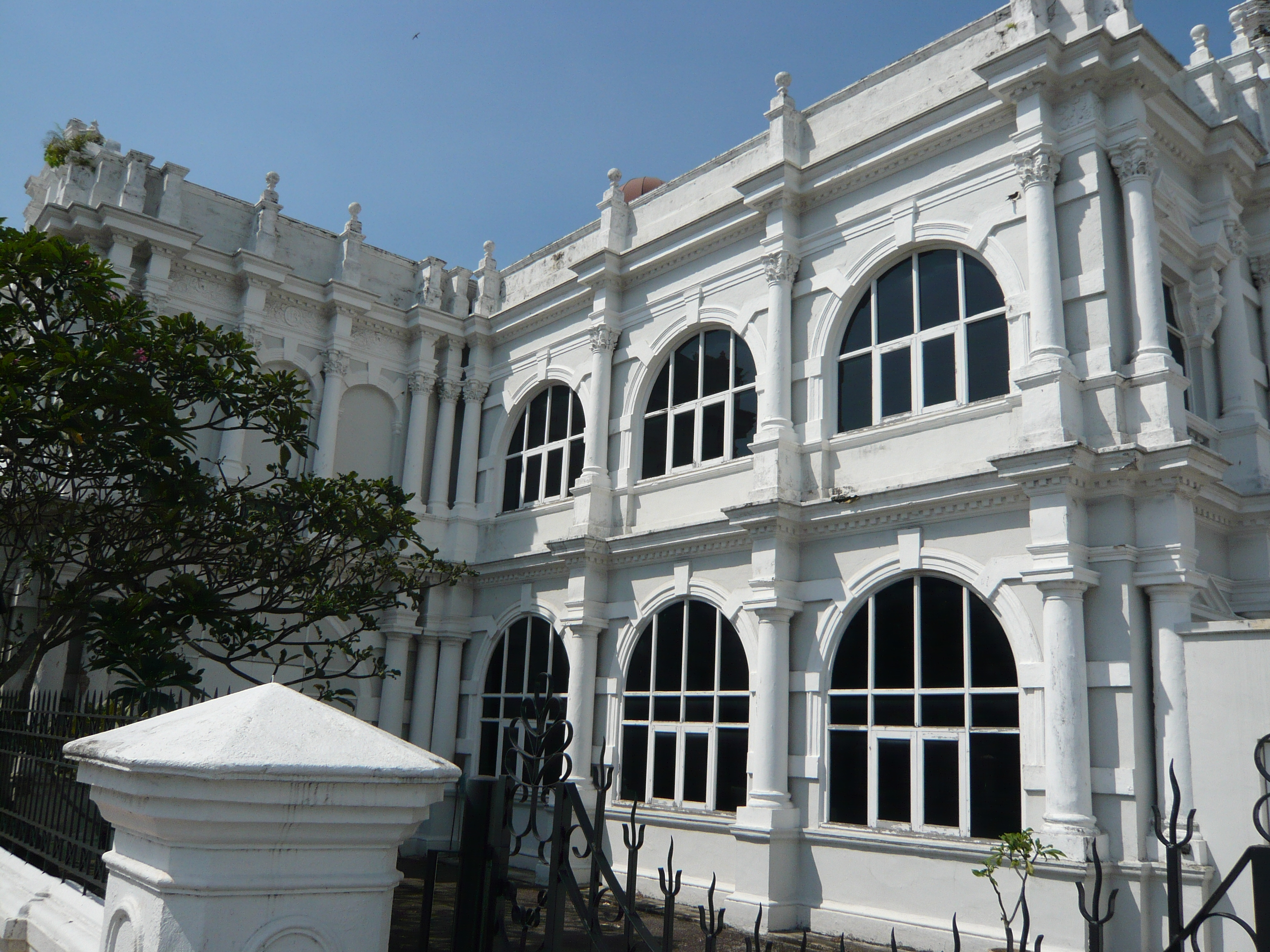 pg museum